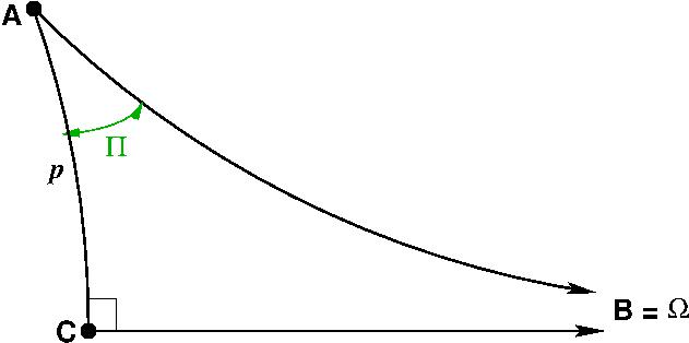 Asymptotic, right triangle used for derivation of hyperbolic angle of parallelism.